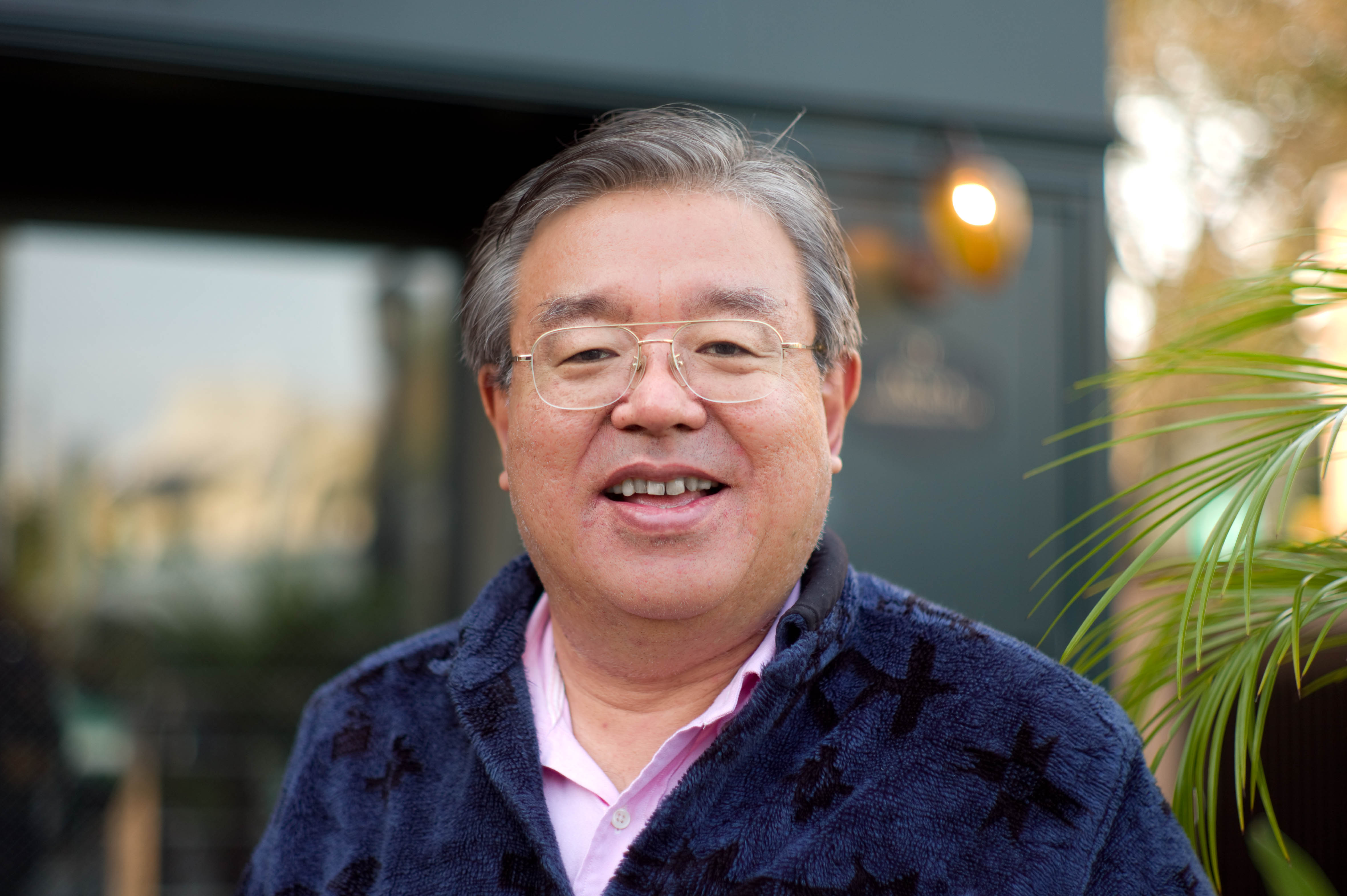 Jun Murai, Dean of Faculty of Environment and Information Studies, Keio University, posed for photos in Tōkyō Metropolis on October 31, 2009.